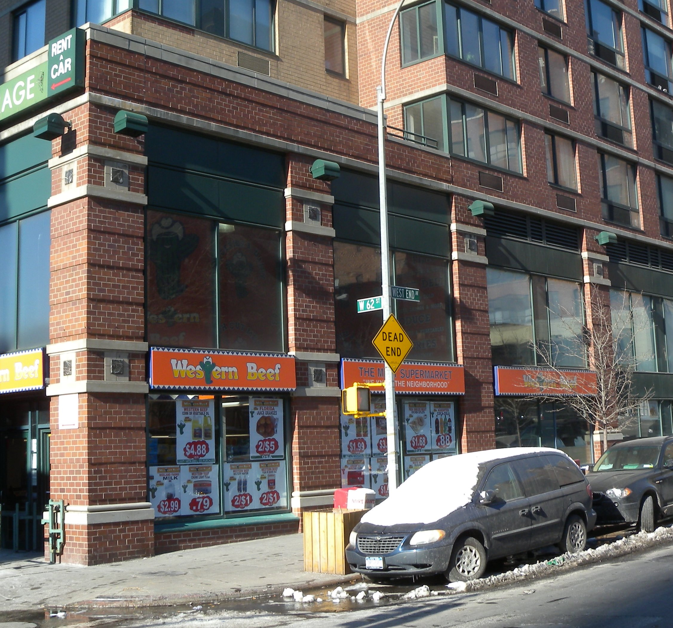 Looking northwest across 11th Av at Western Beef on a sunny midday.